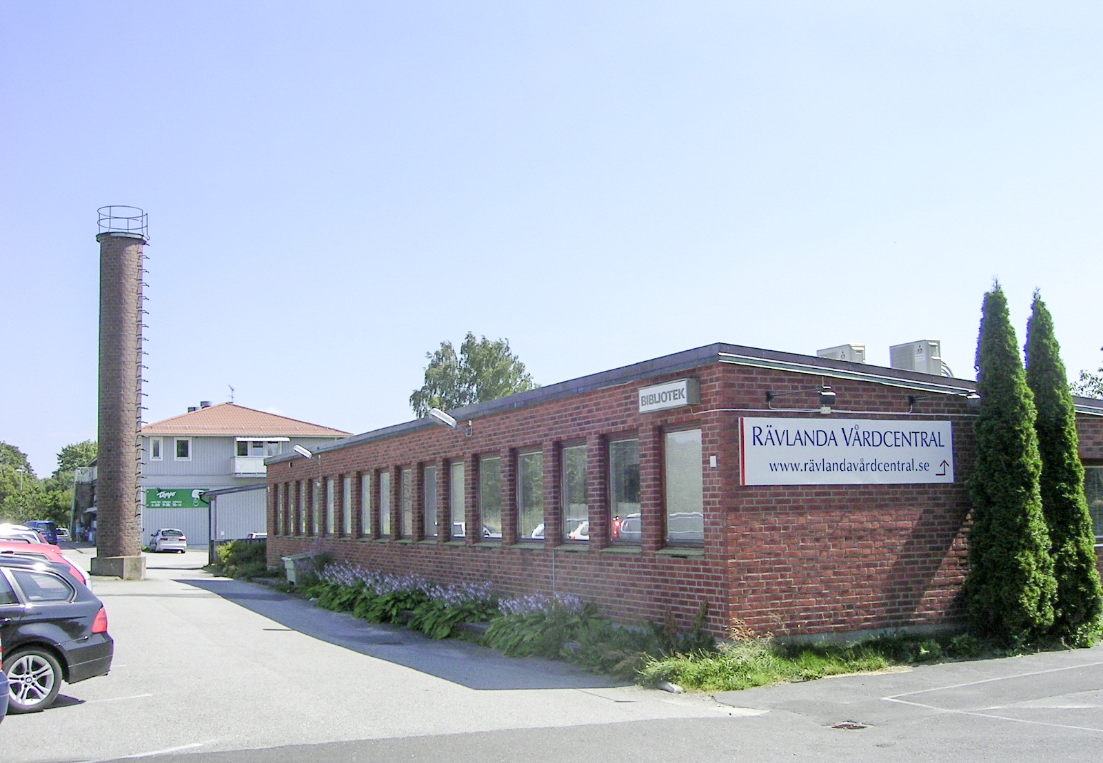 Centre of Rävlanda village, Härryda municipality, Sweden